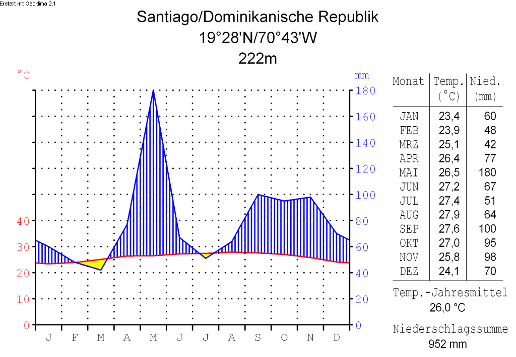 climate chart in the format by Walter and Lieth, metric, °Celsisus and millimeters, made with Geoklima 2.1